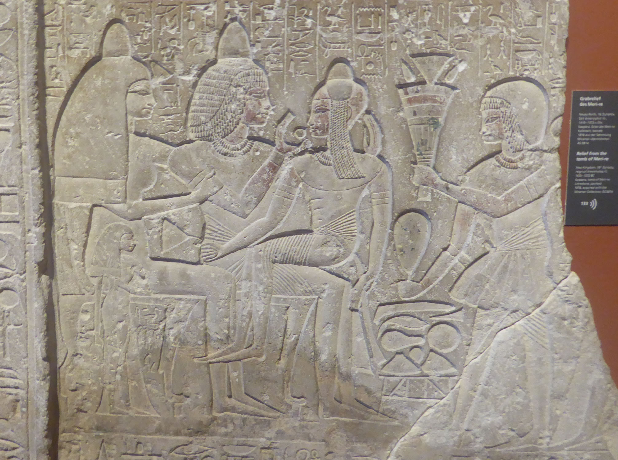 Relief fragment from tomb of Merire, Saqqara, now in Kunsthistotisches Museum, Vienna, inv. no. AS 5814